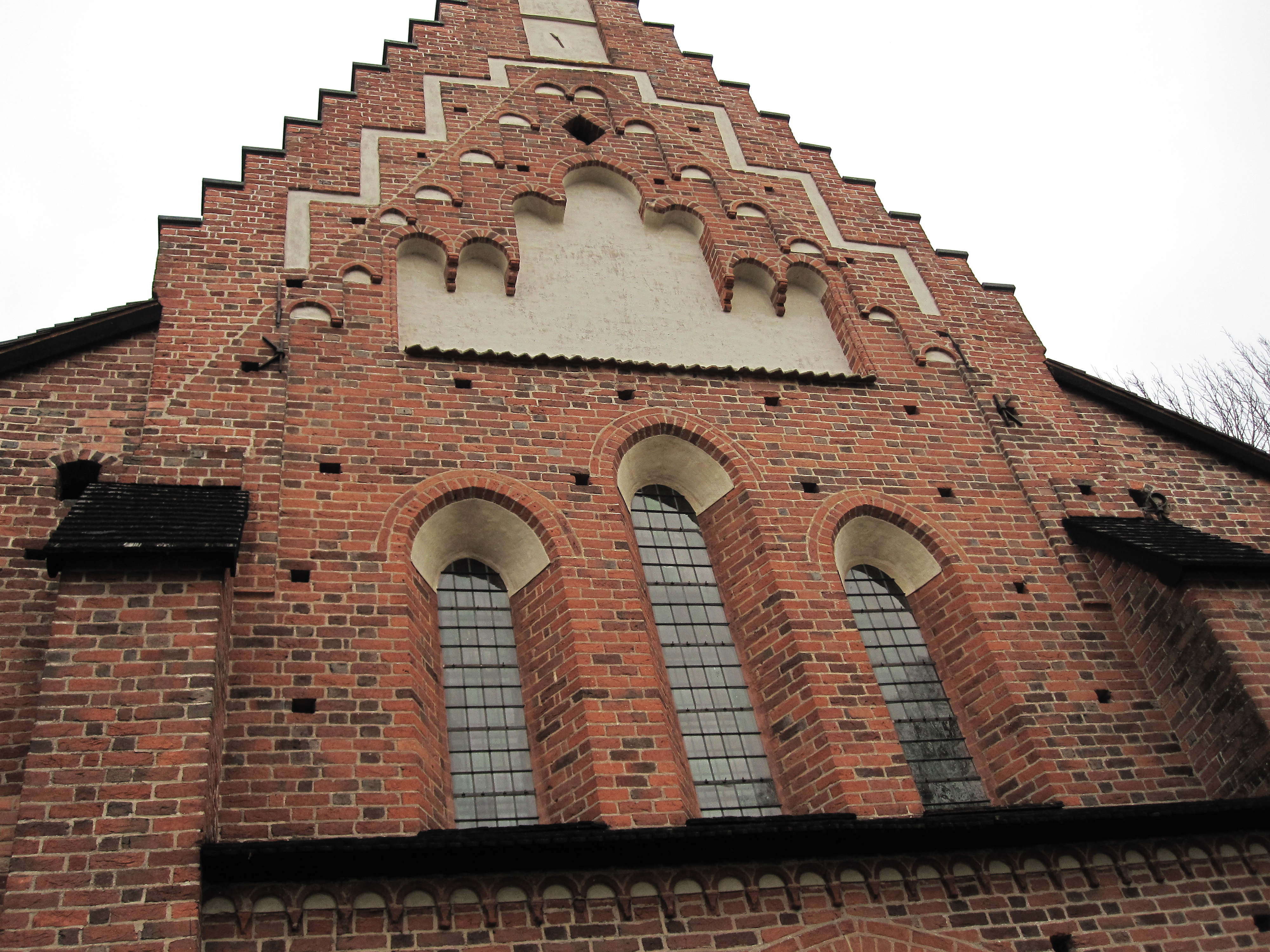 Church of Saint Mary, Sigtuna, Sweden.